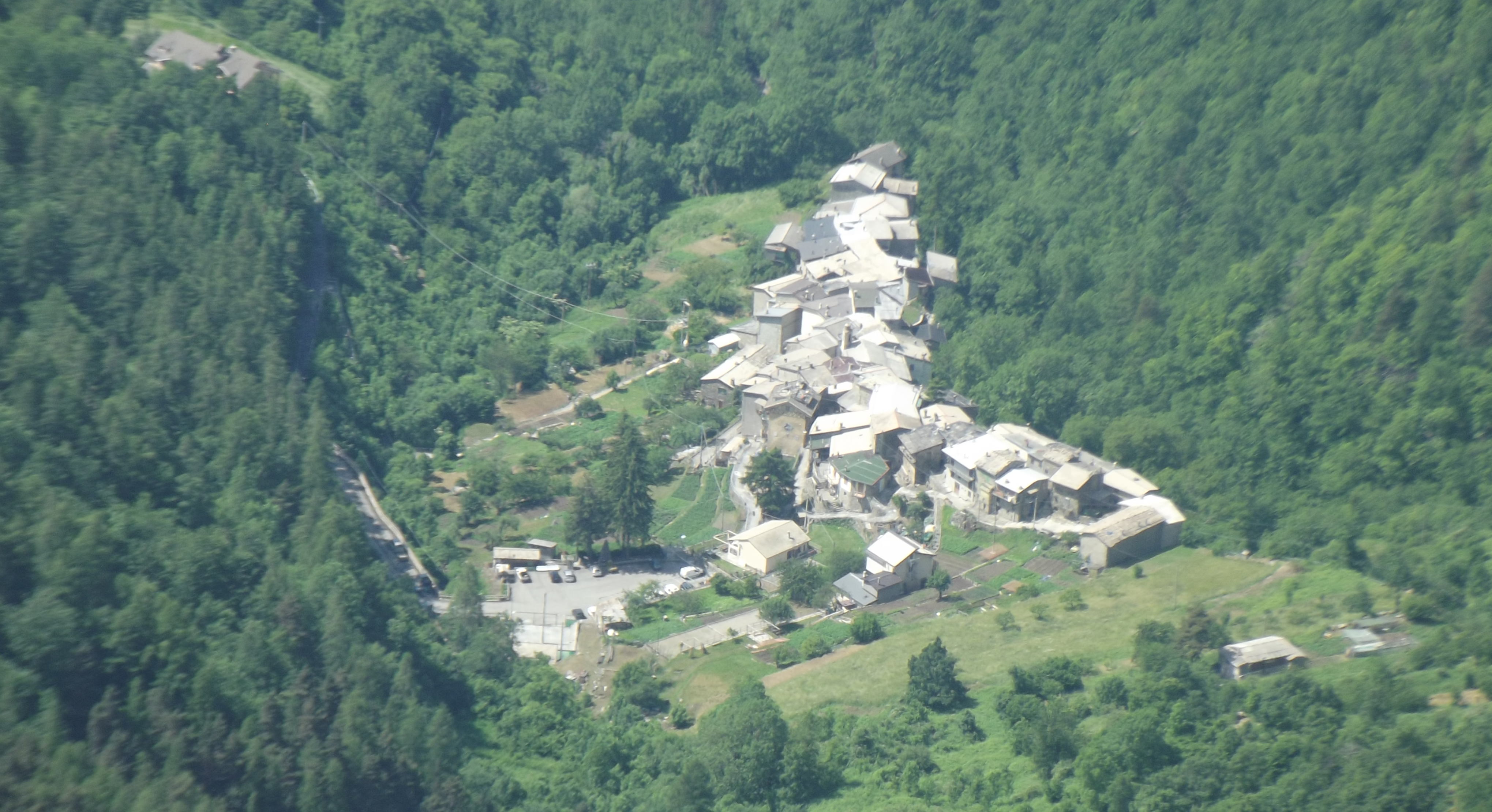 Verdeggia (Triora, IM, Italy) from monte Saccarello